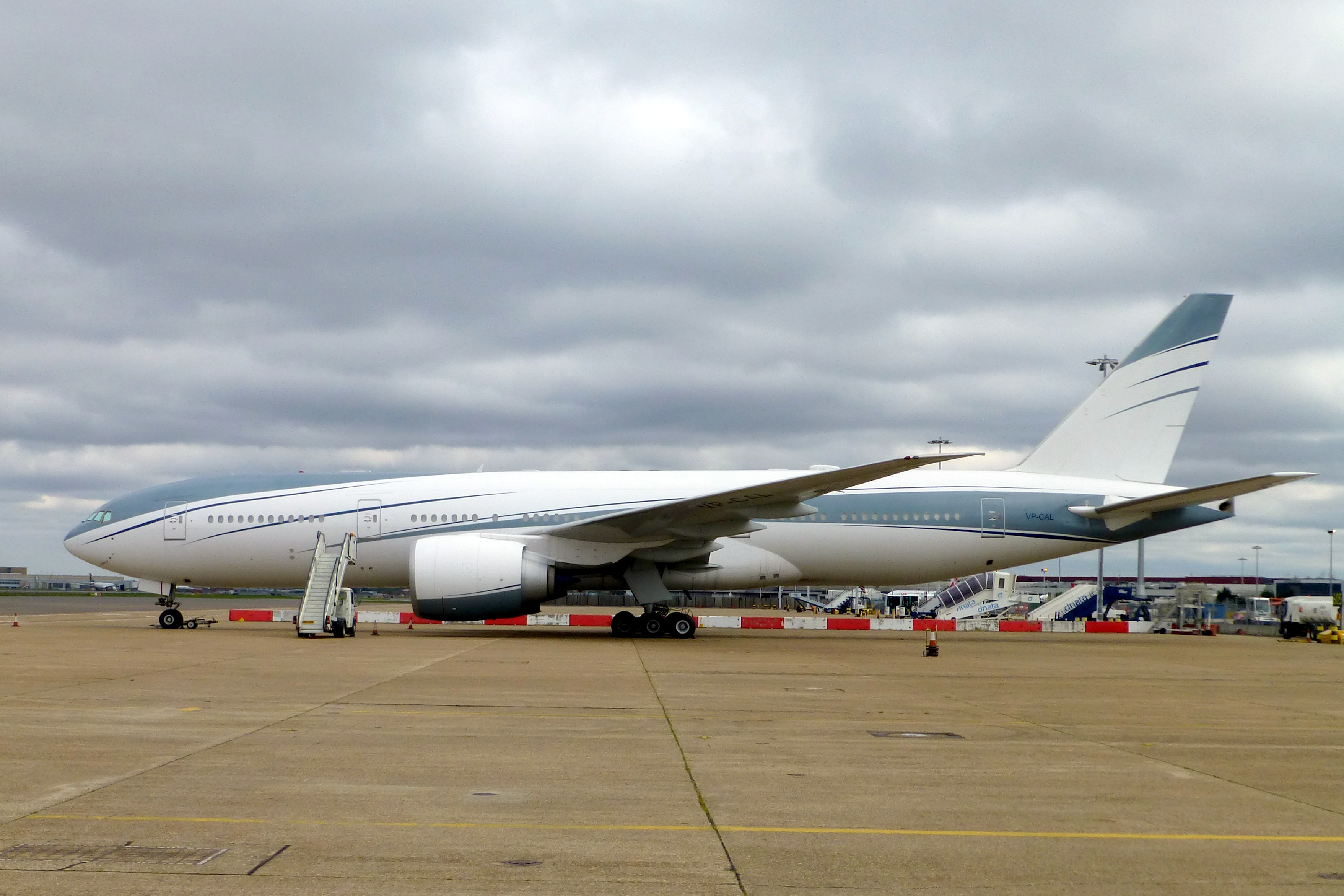 VP-CAL Boeing 777-2KQ(LR)(VIP) of Aviation Link on std 606.